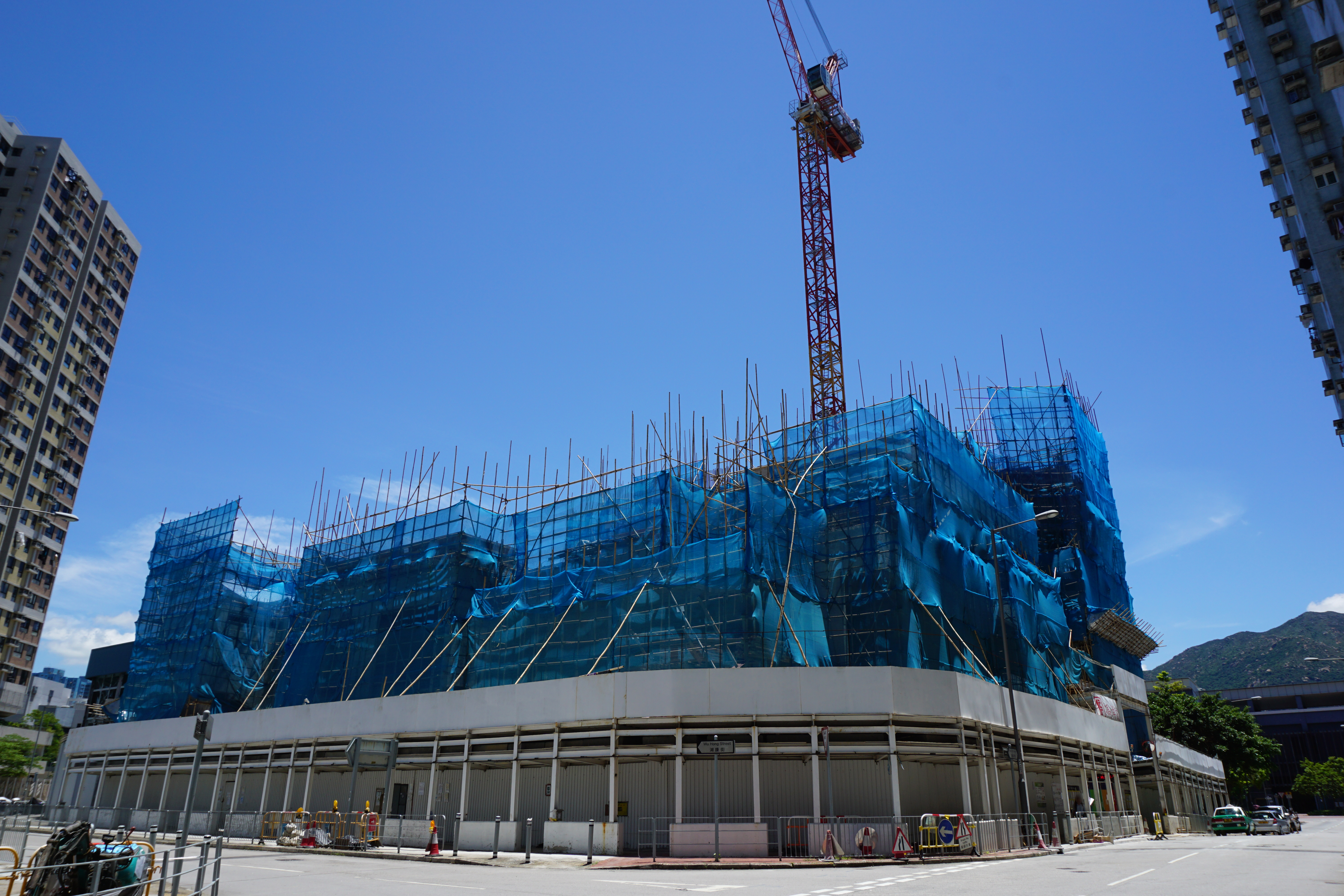 2gether in Tuen Mun, Hong Kong.